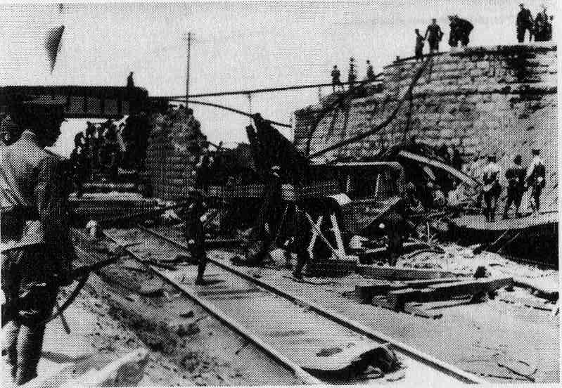 Place of assassination of chinese warlord Zhang Zuolin (1875－1928)